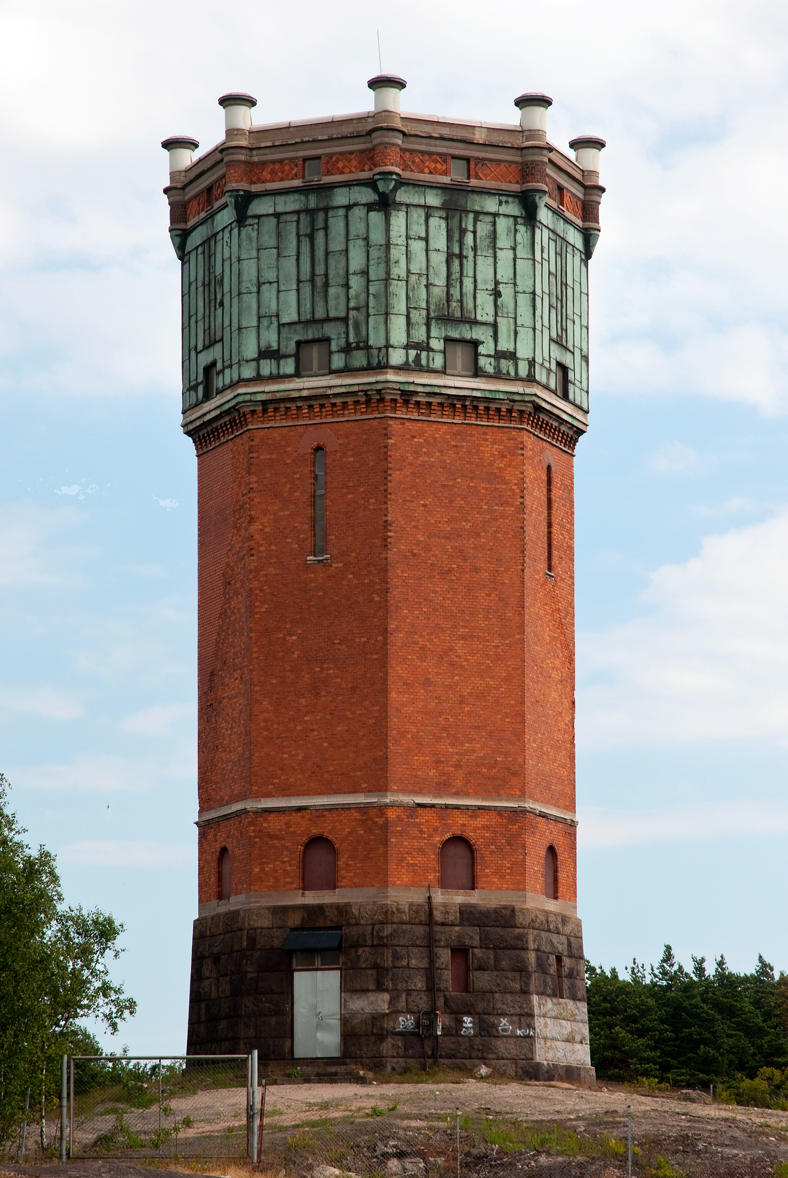 Oxelösund old water tower